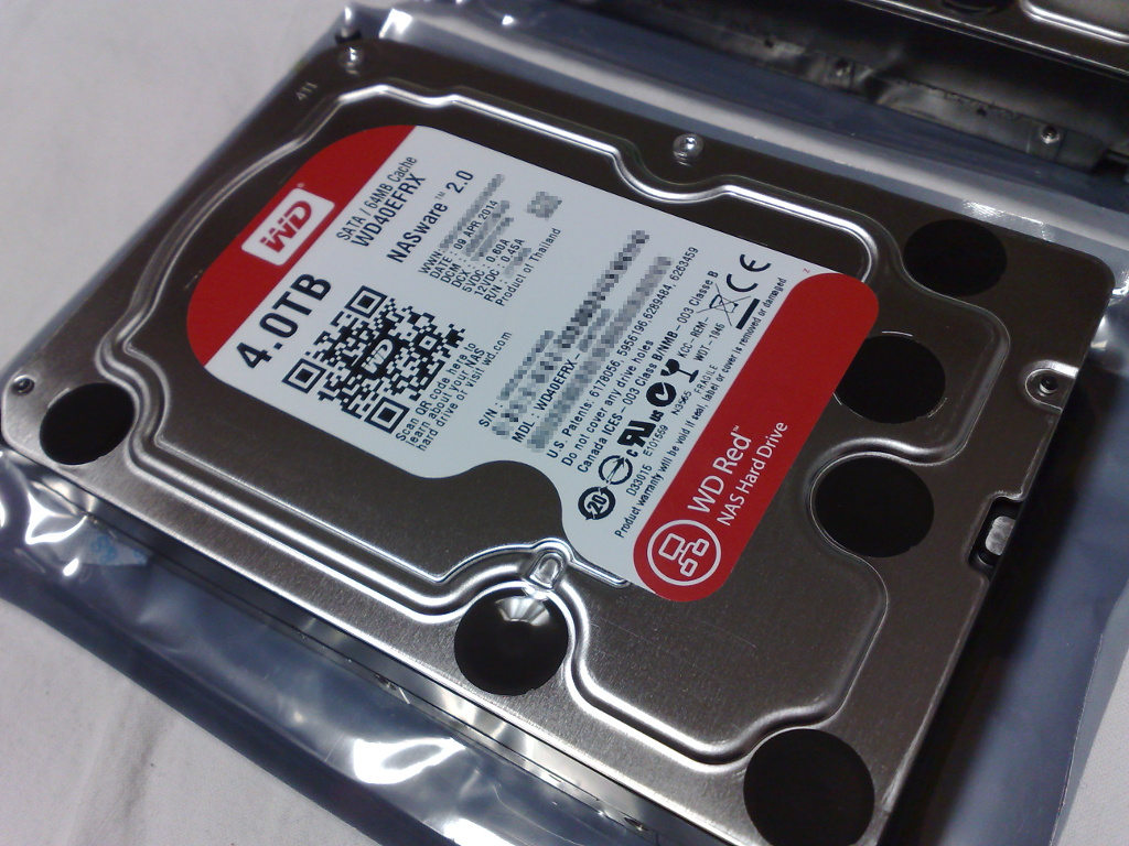 Western Digital "Red" 4 TB NAS-optimized 3.5-inch SATA hard disk drive (p/n: WD40EFRX)